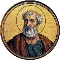 Portrait of Pope Pius I in the Basilica of Saint Paul Outside the Walls, Rome